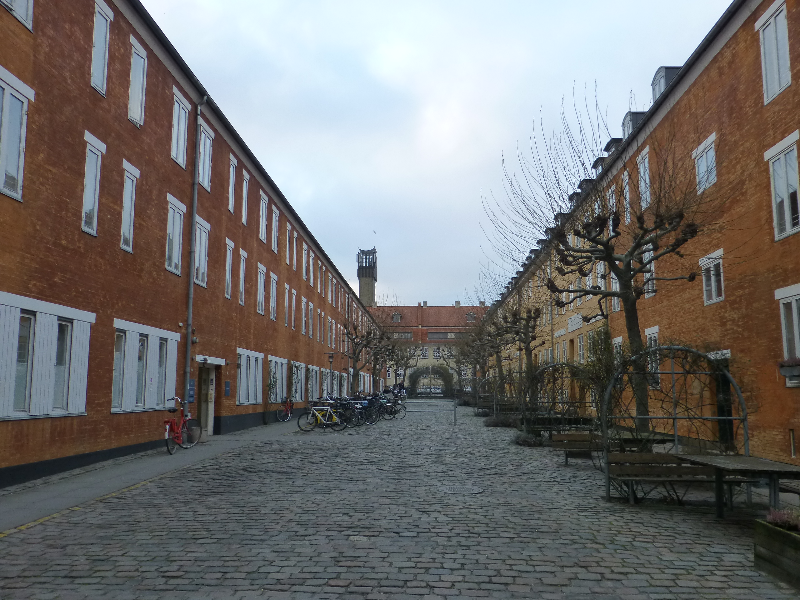 The street Rosengade in Indre By in Copenhagen.